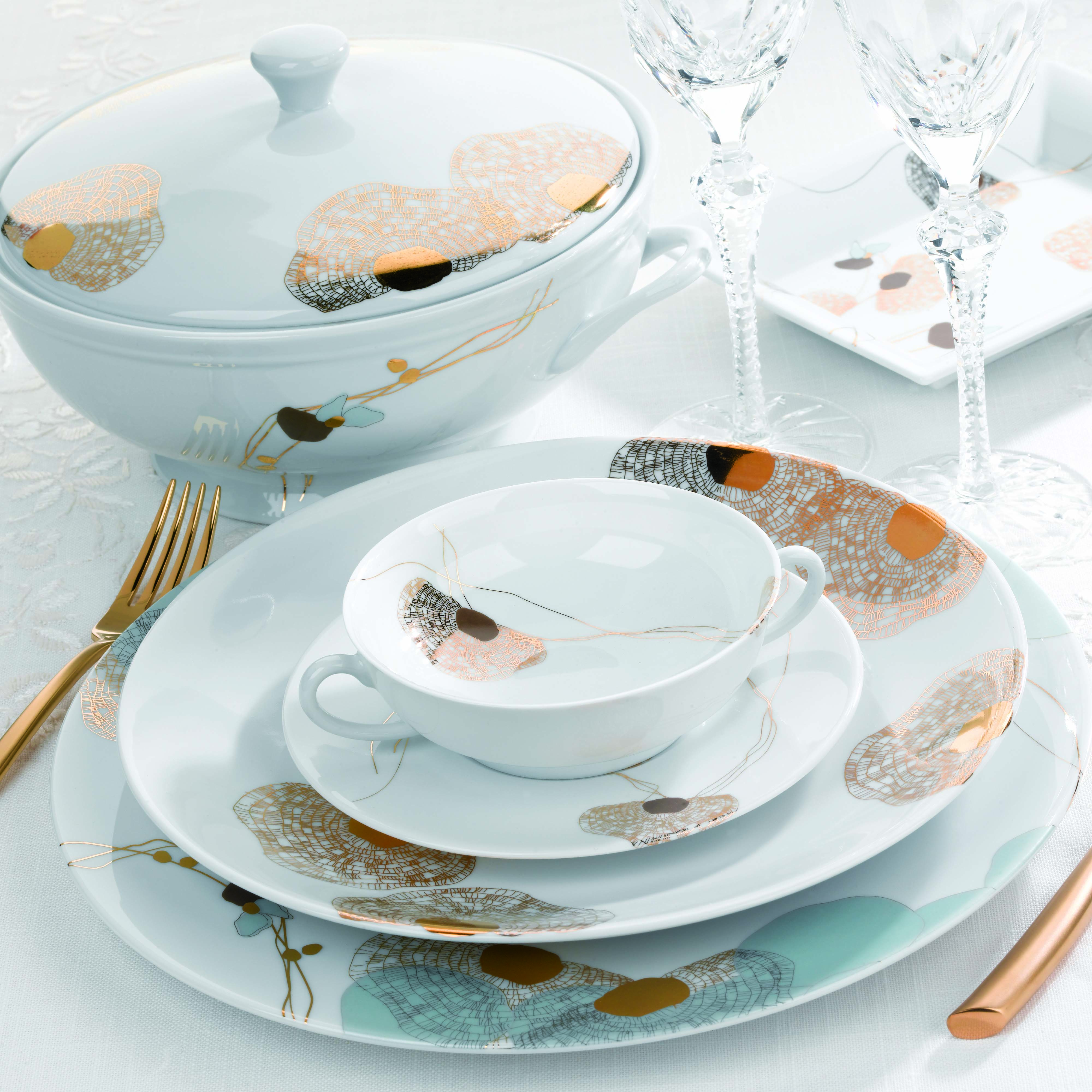 Ravissement, a luxury porcelain series by Deshoulières